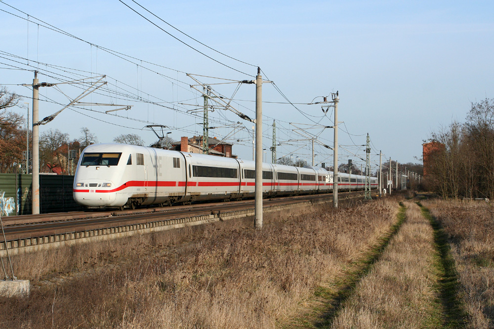 An ICE 1 on the Berlin-Hannover high-speed railway line, near Gardelegen